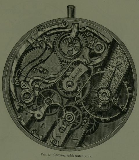 Drawing of the movement of a chronograph pocketwatch from the 1800s.